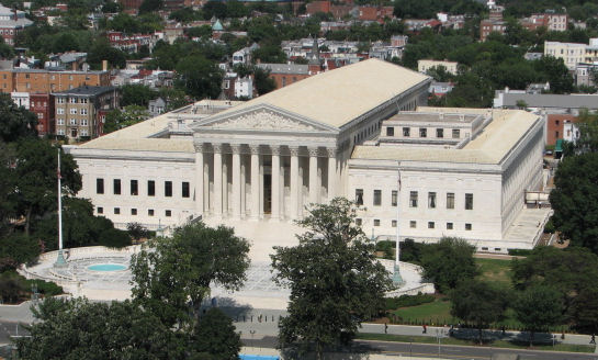 View of the United States Supreme Court building taken from the top of the United States Capitol building dome, on July 12th, 2007, by Rebel At.